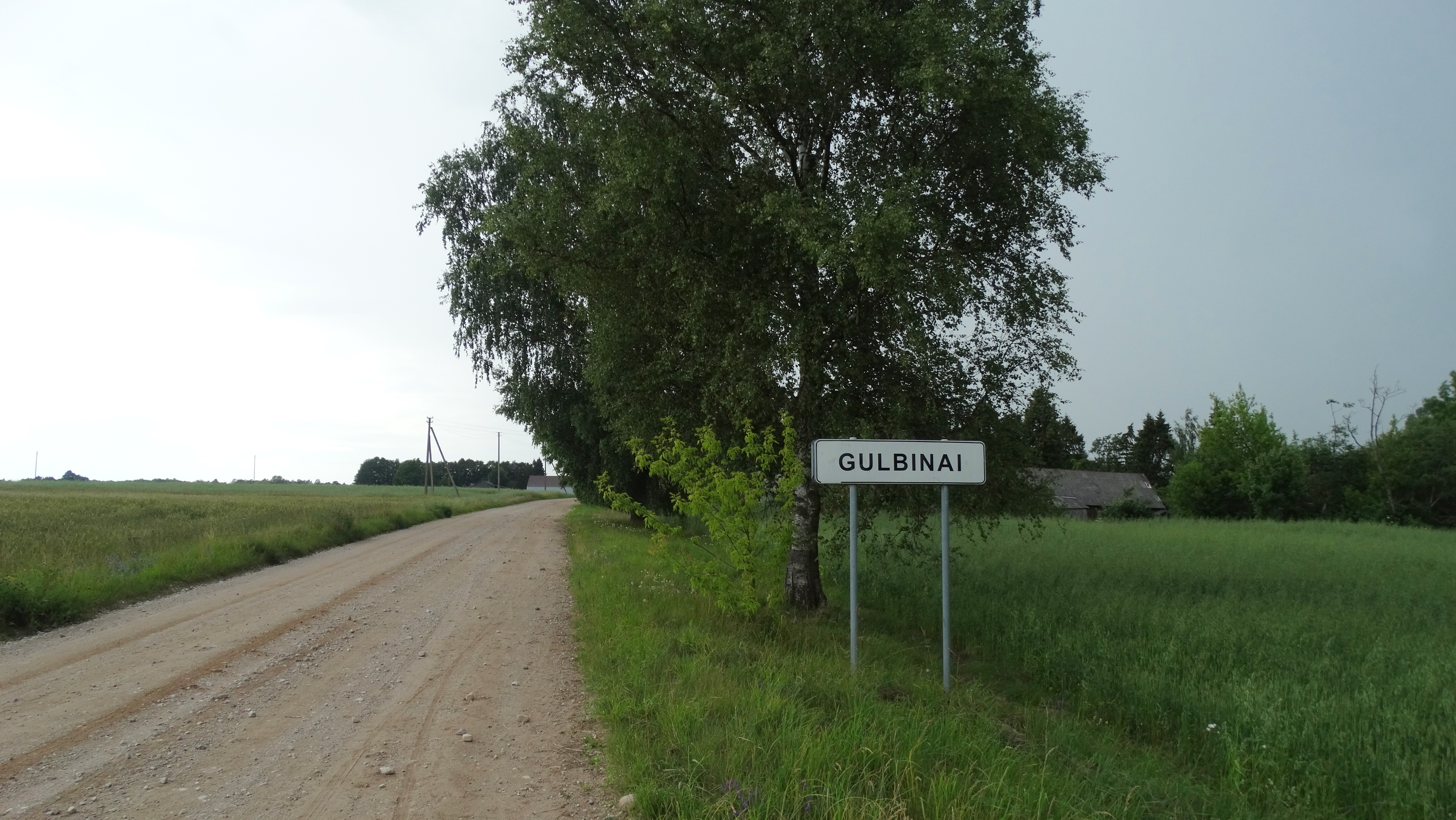 Gulbinai, Biržai district, Lithuania